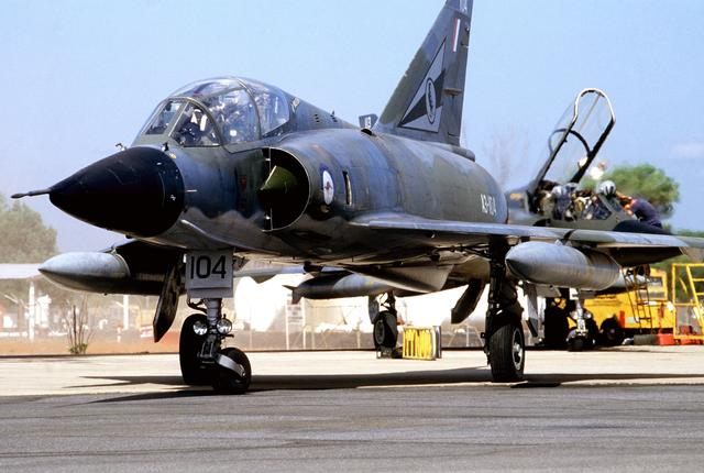 This is a Royal Australian Air Force(RAAF)Squadron75 Mirage III-D taxis on the flight line. ID: DFST9000846 Service Depicted: Air Force A Royal Australian Air Force (RAAF) No. 75 Squadron Mirage IIID aircraft taxis on the flight line while another Mirage is serviced. The jets are taking part in PITCH BLACK '88, a joint AUSTRALIA-US Exercise emphasizing night flying. Camera Operator: SSGT MARVIN D. LYNCHARD Date Shot: 7 Jul 1988